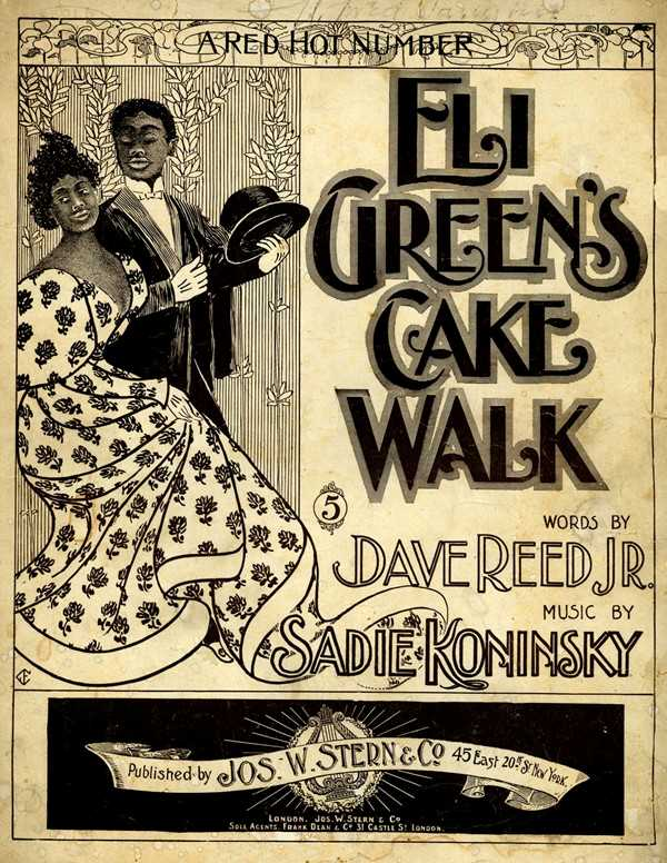 "Eli Green's Cake Walk" by Sadie Koninsky (words by Dave Reed). New York, NY: Jos. W. Stern & Co., 1896 sheet music cover.